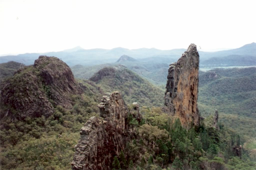 Photo taken February 20, 1995